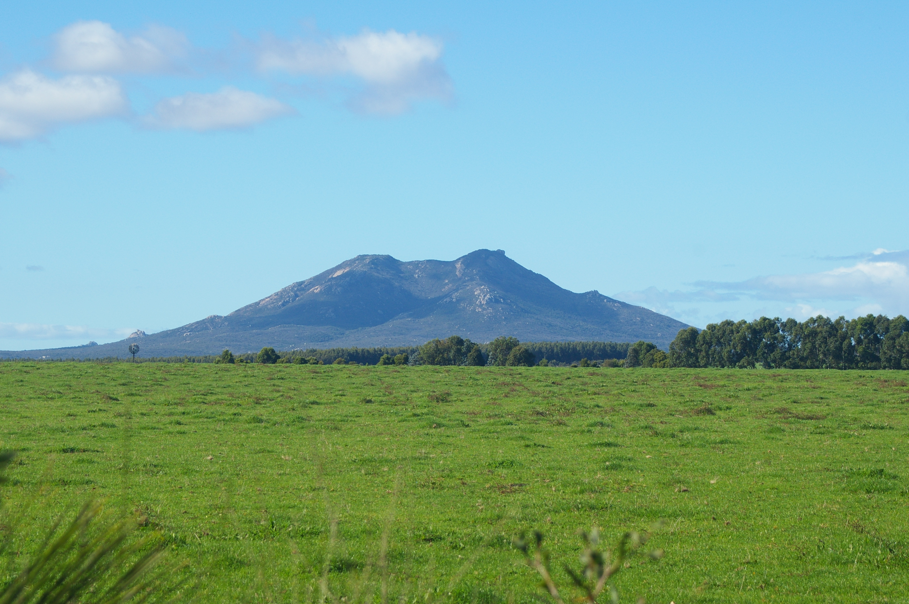 Photo of Mount Manypeaks taken from South-coast highway